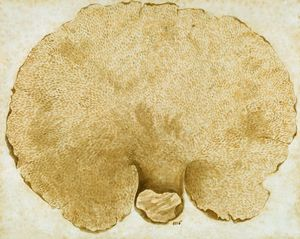 "Dryad's_saddle_seen_from_below" from Cassiano dal Pozzo's Museum chartaceum